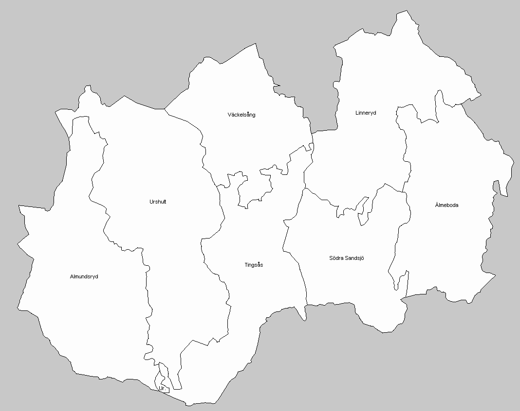 Parishes in Tingsryd's municipality